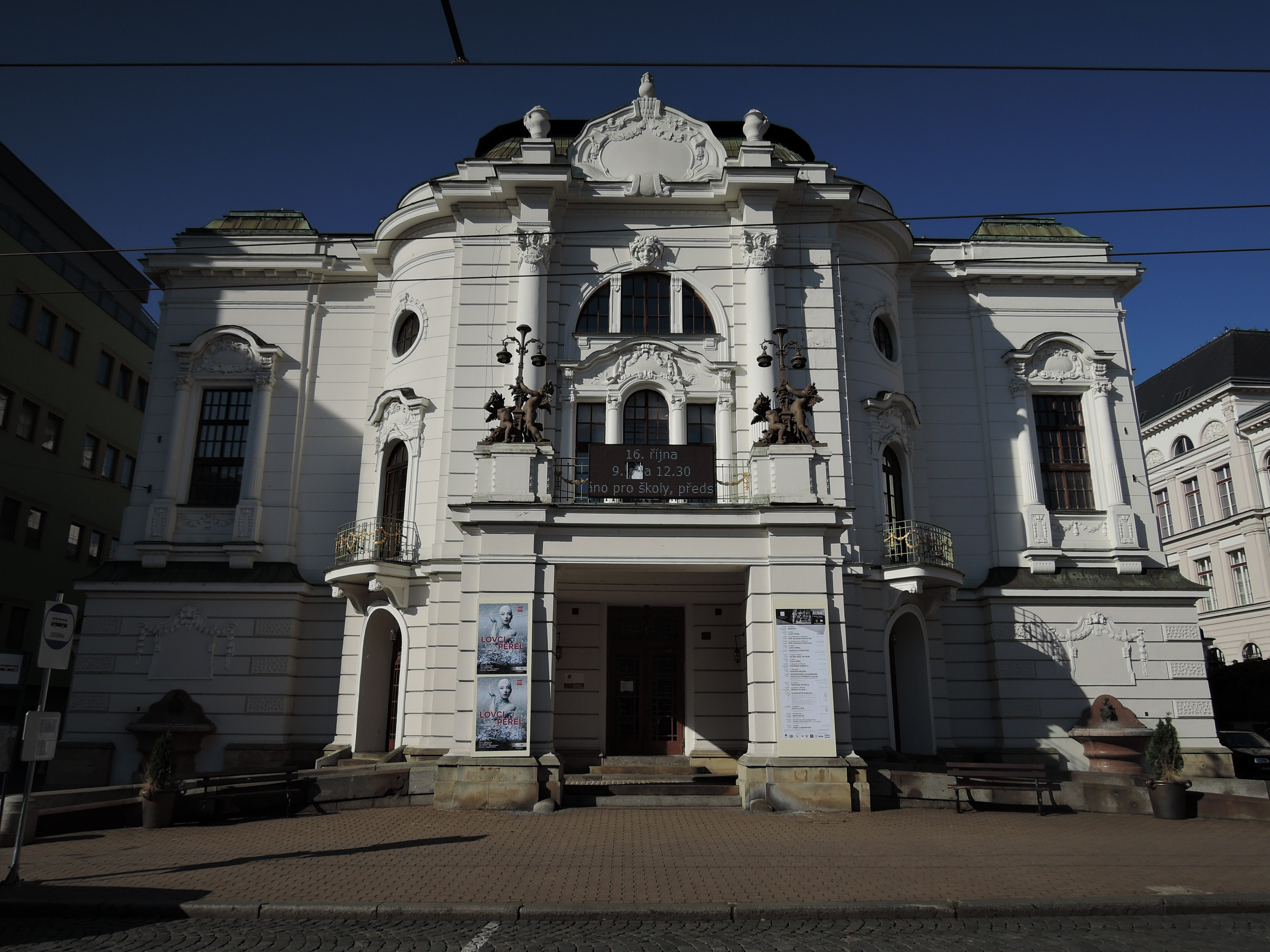 Ústí nad Labem- theatre